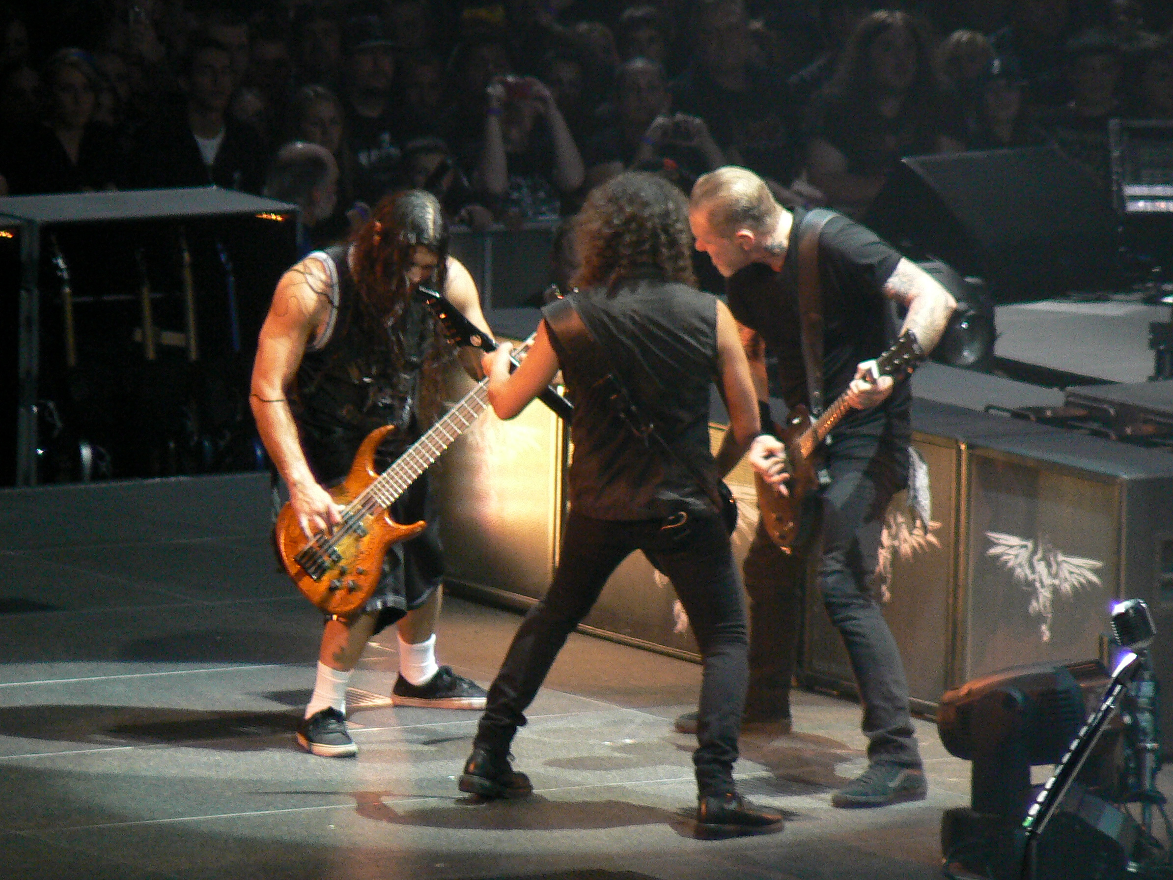 Metallica live at Sacramento